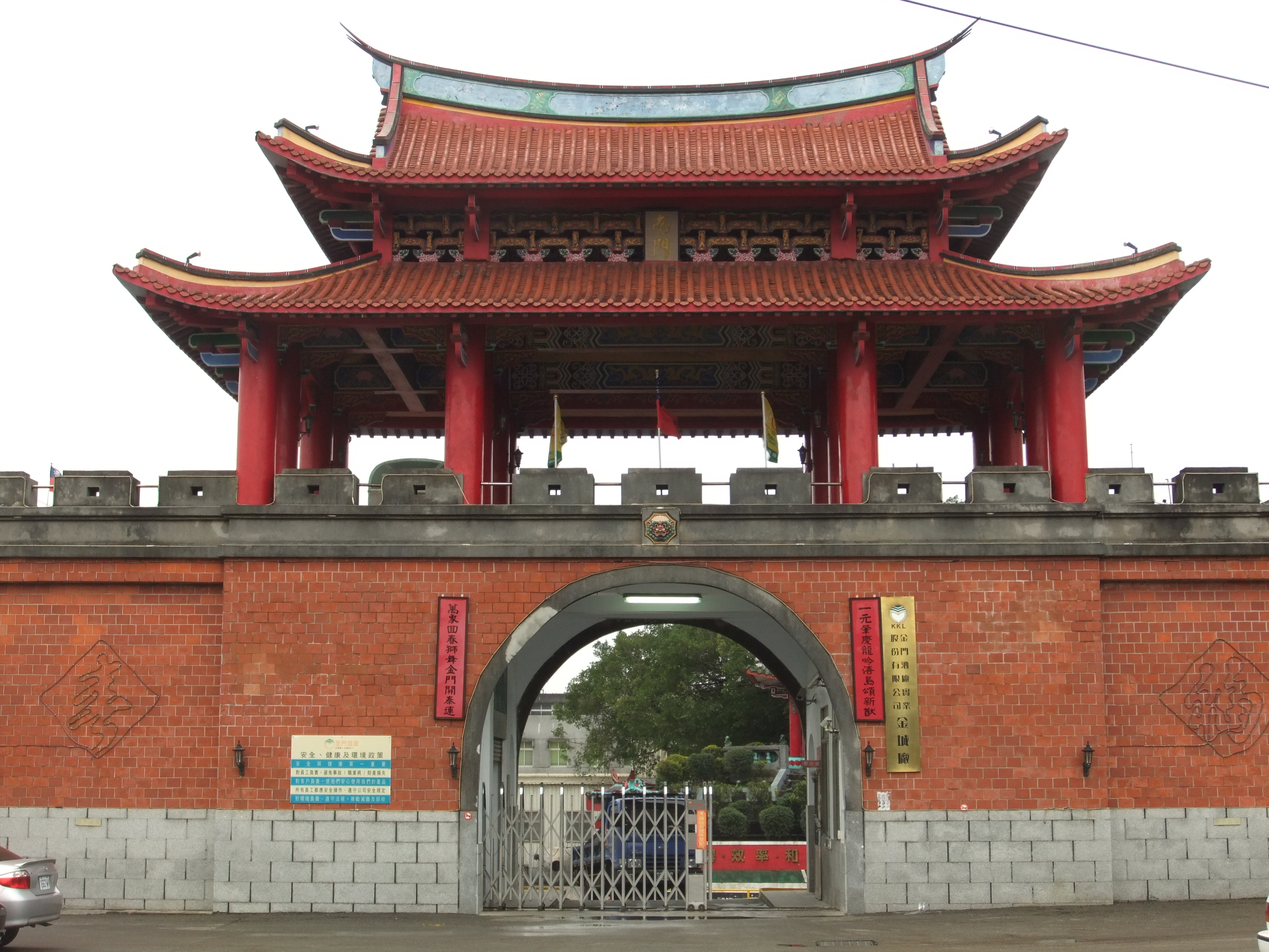 Kinmen Distillery. Outside of the main door, one can see the statue of the founder.